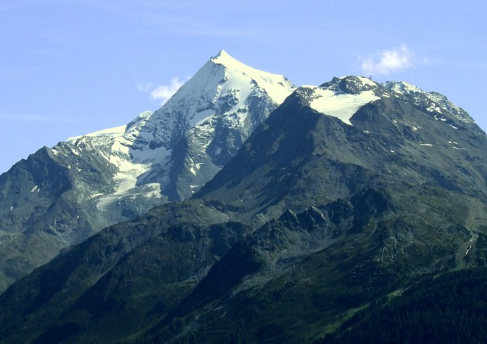 Mont Pourri Picture taken by user Idéfix august 22, 2006